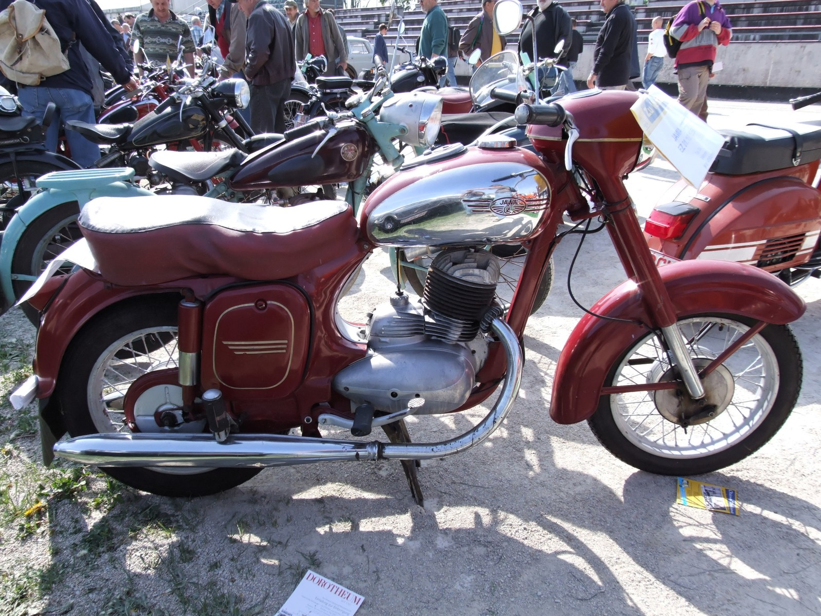 Jawa Typ 353 249ccm 9 KW 4750 U/min. Quelle: selbst fotografiert, 04/2007 Fotograf: Späth Chr.